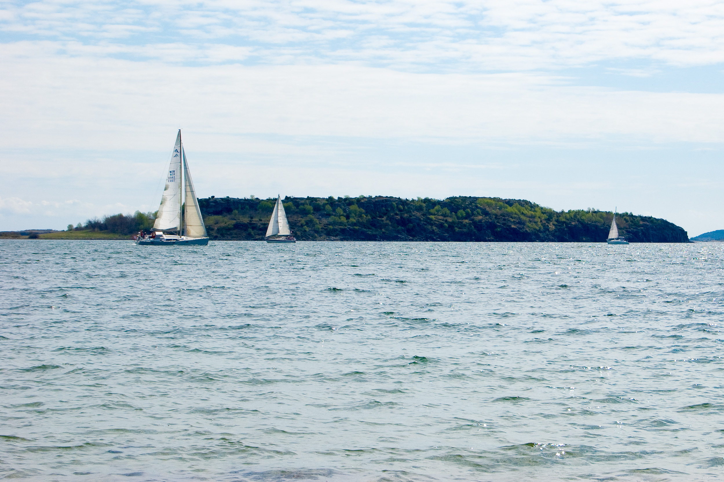 Ormøya, an island in Nøtterøy, Vestfold, Norway.